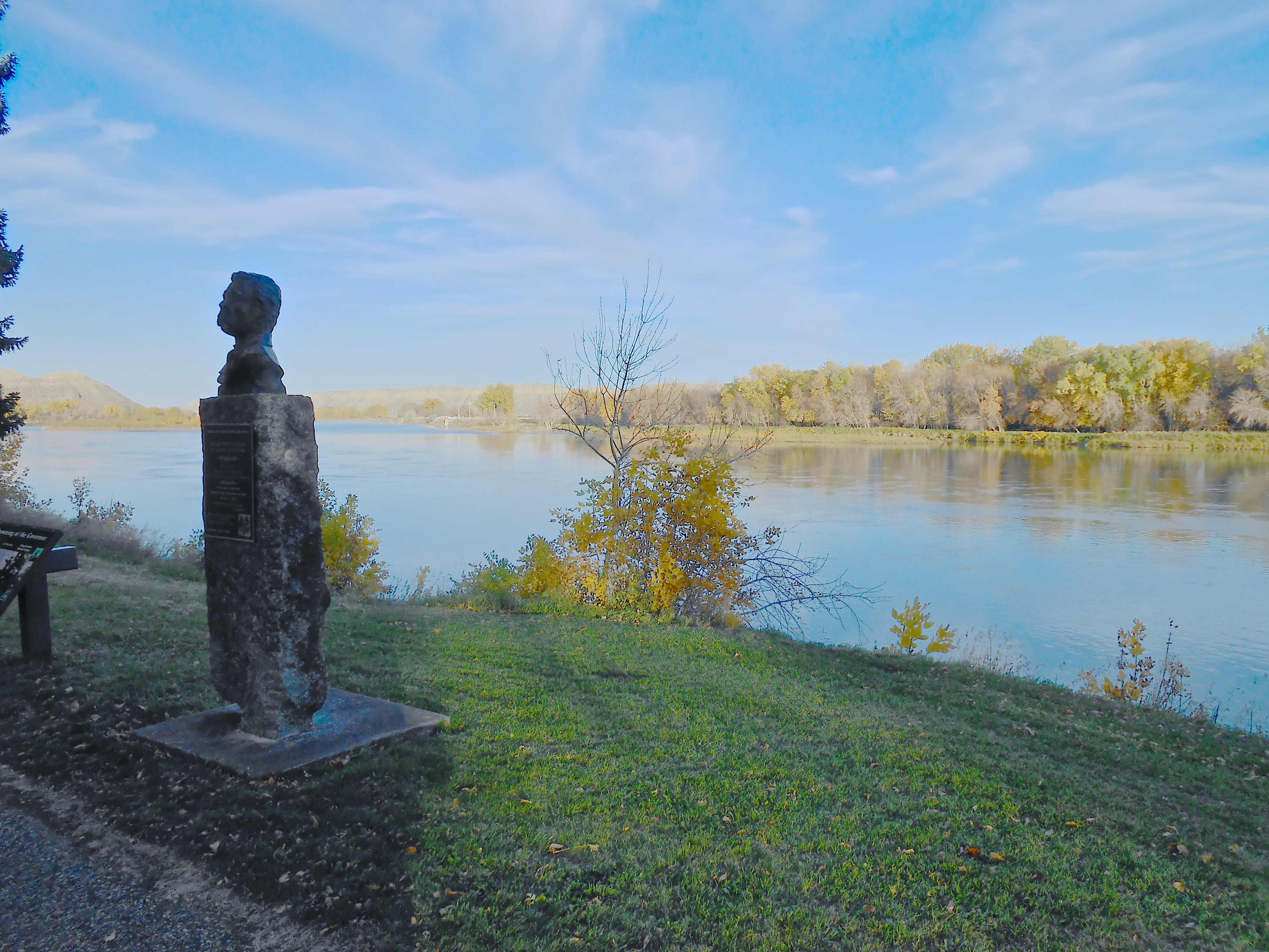 Thomas Francis Meagher bust along the banks of the Missouri River, Fort Benton, Montana. Installed 2009